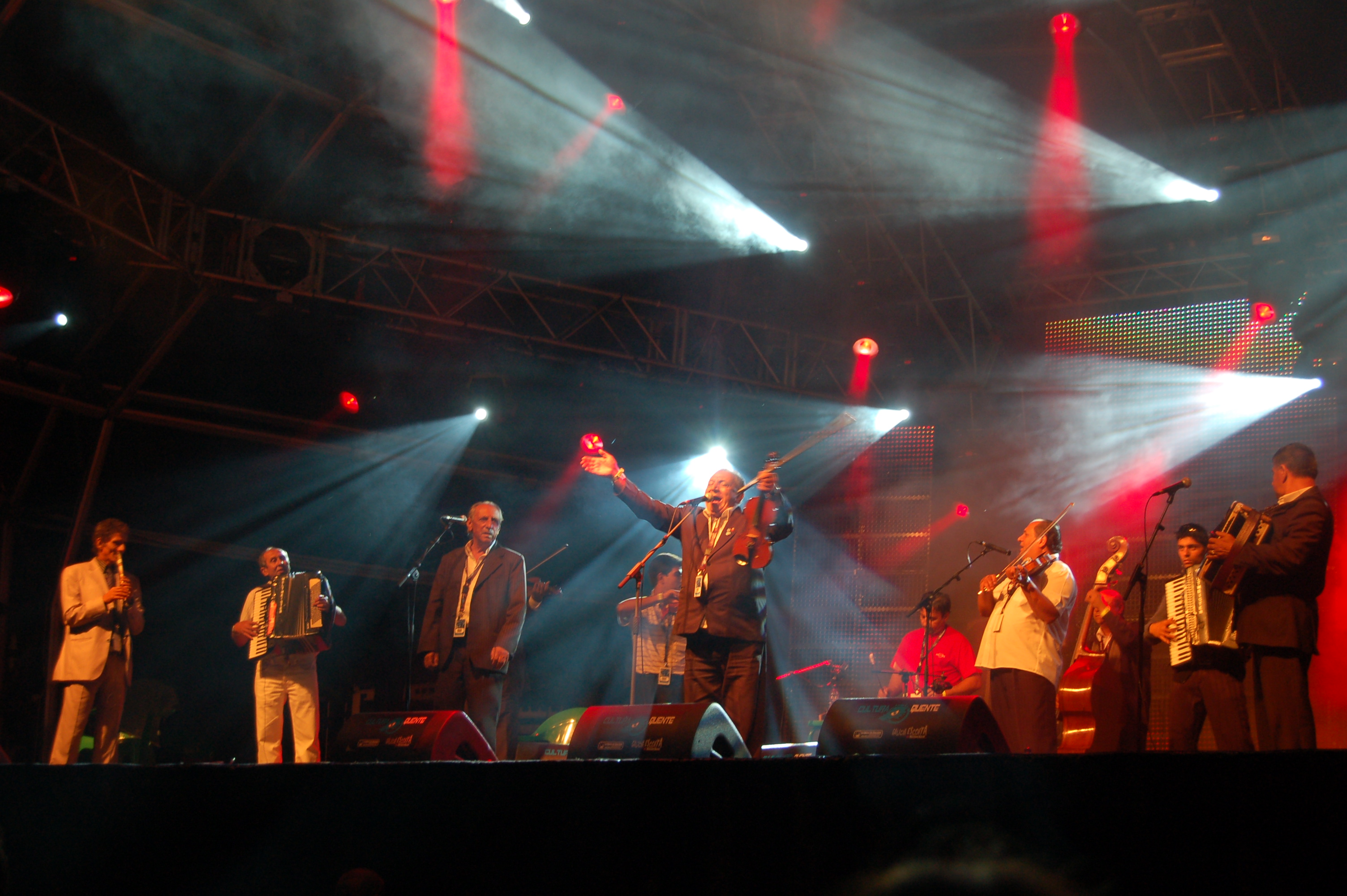 concert of Taraf de Haïdouks(Caldas de Reis, Galicia)